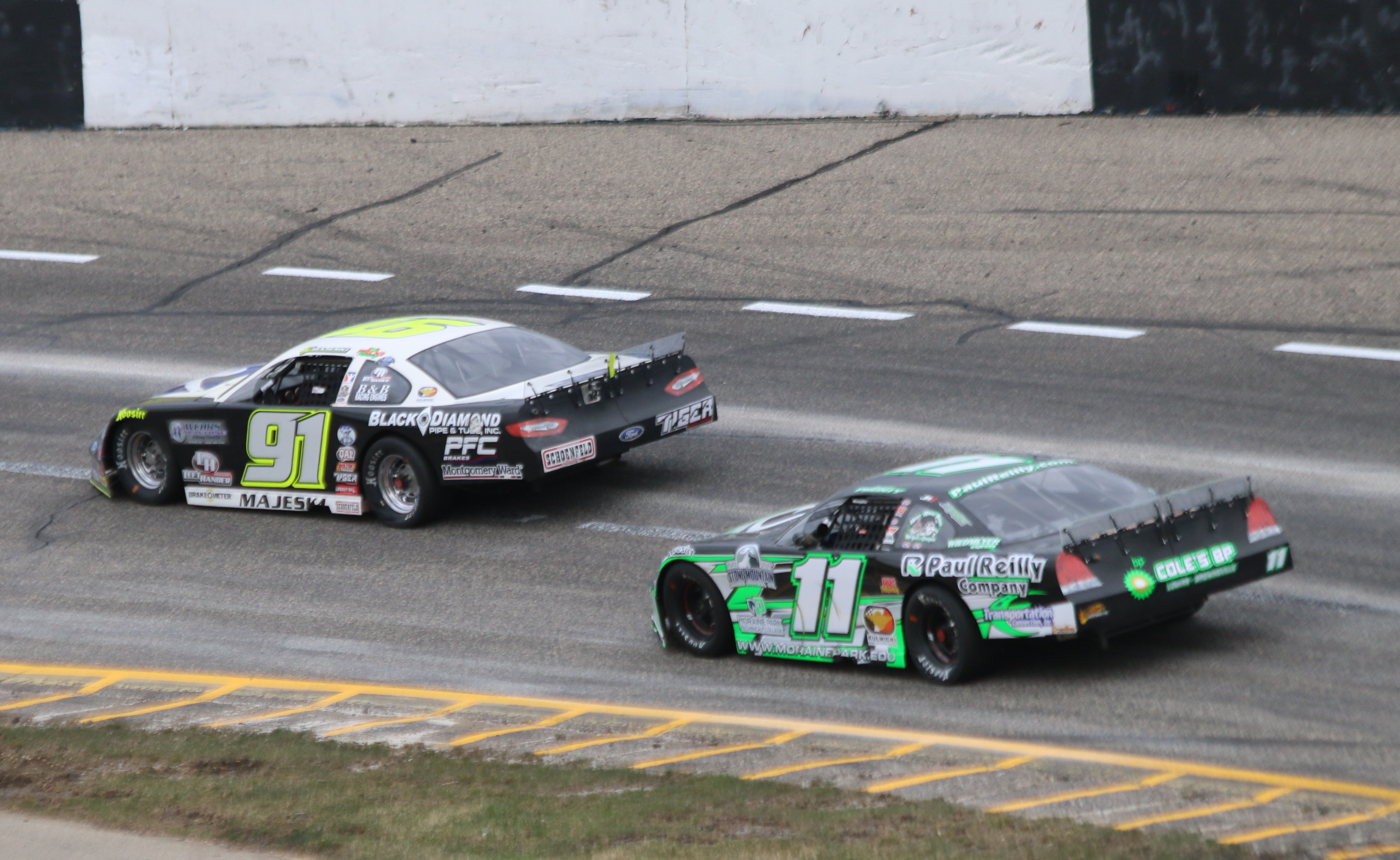 Alan Kulwicki Driver Development winners #91 Ty Majeski racing against #11 Alex Prunty. The two won the Development programs in 2015 and & 2016 respectively.